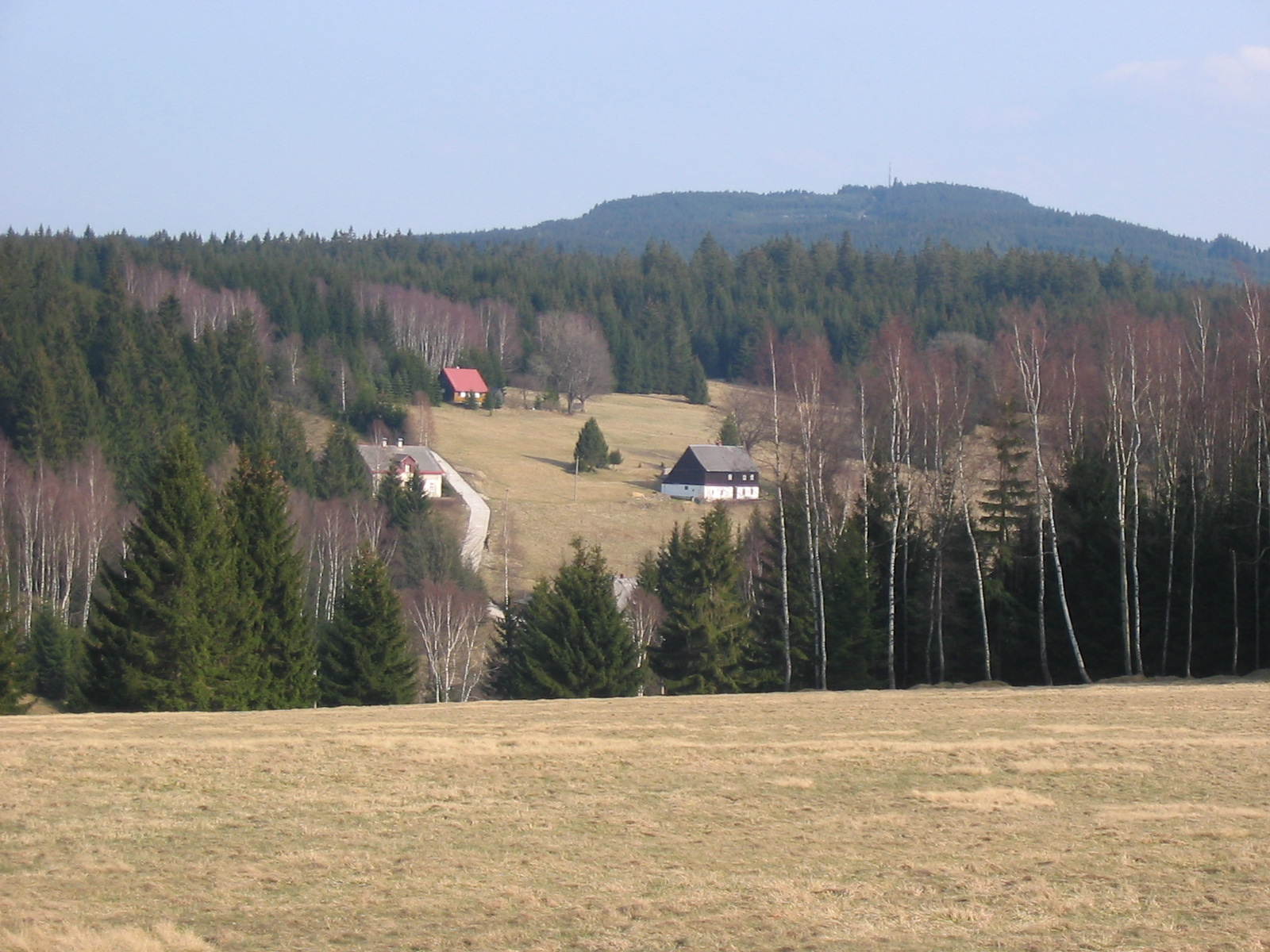 Blatenský vrch mountain in northern czechia, just south of the german border.